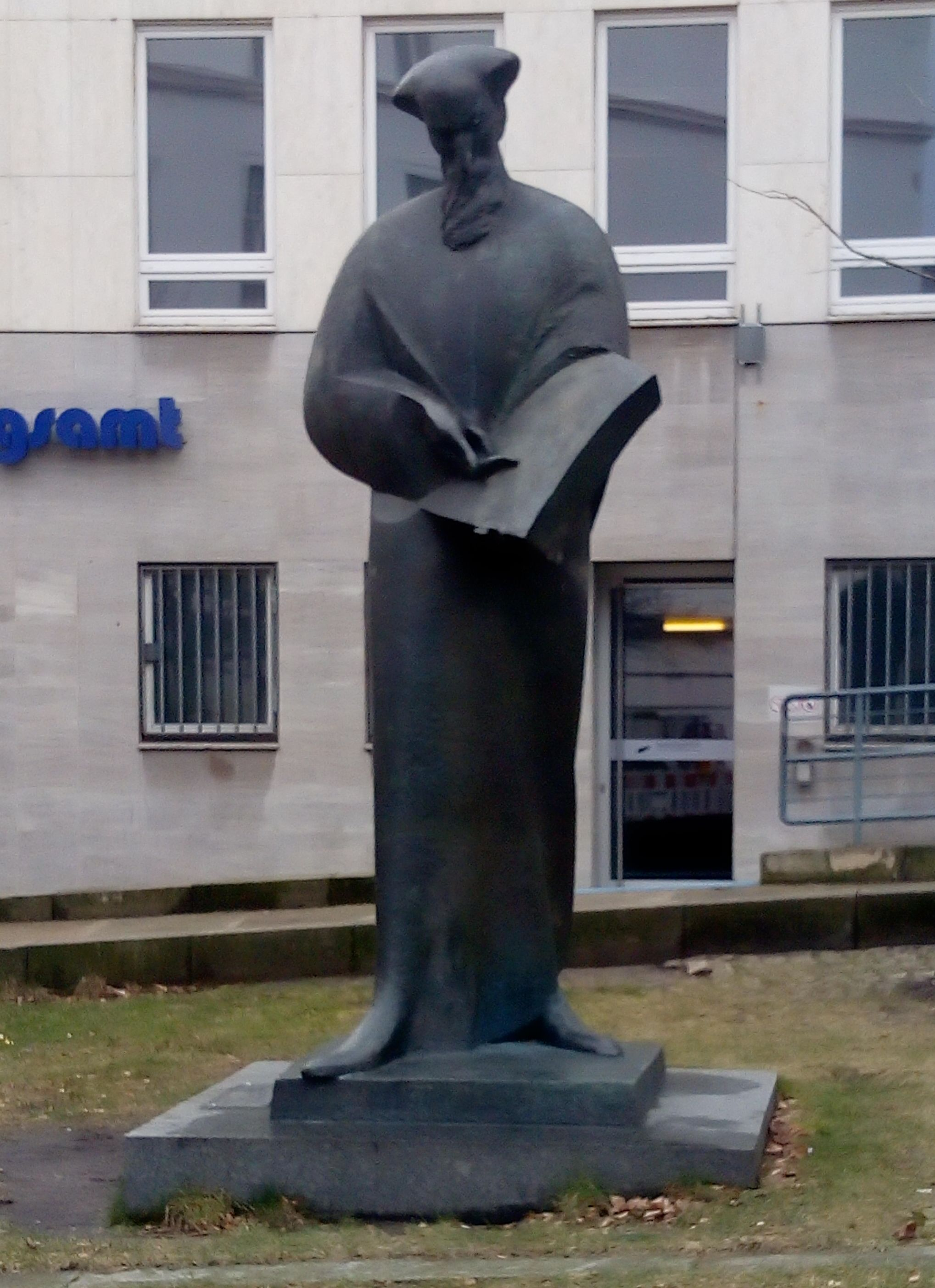 Statue of Marko Marulic in Wilmerdorf